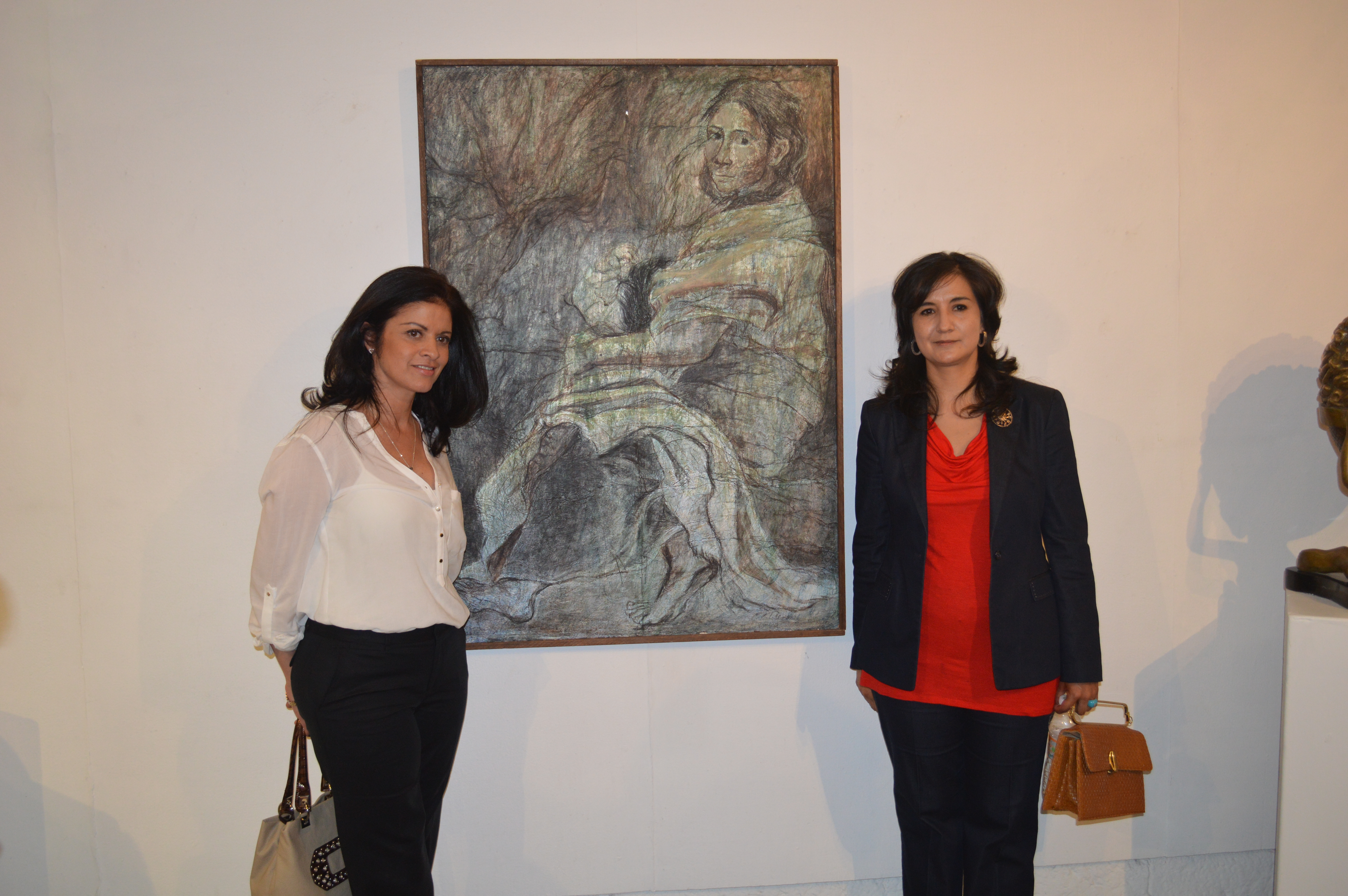 Two visitors with work by Celia Calderon called "Mujer Chamula" at the Mujers del Salón de la Plástica Mexicana event in Mexico City